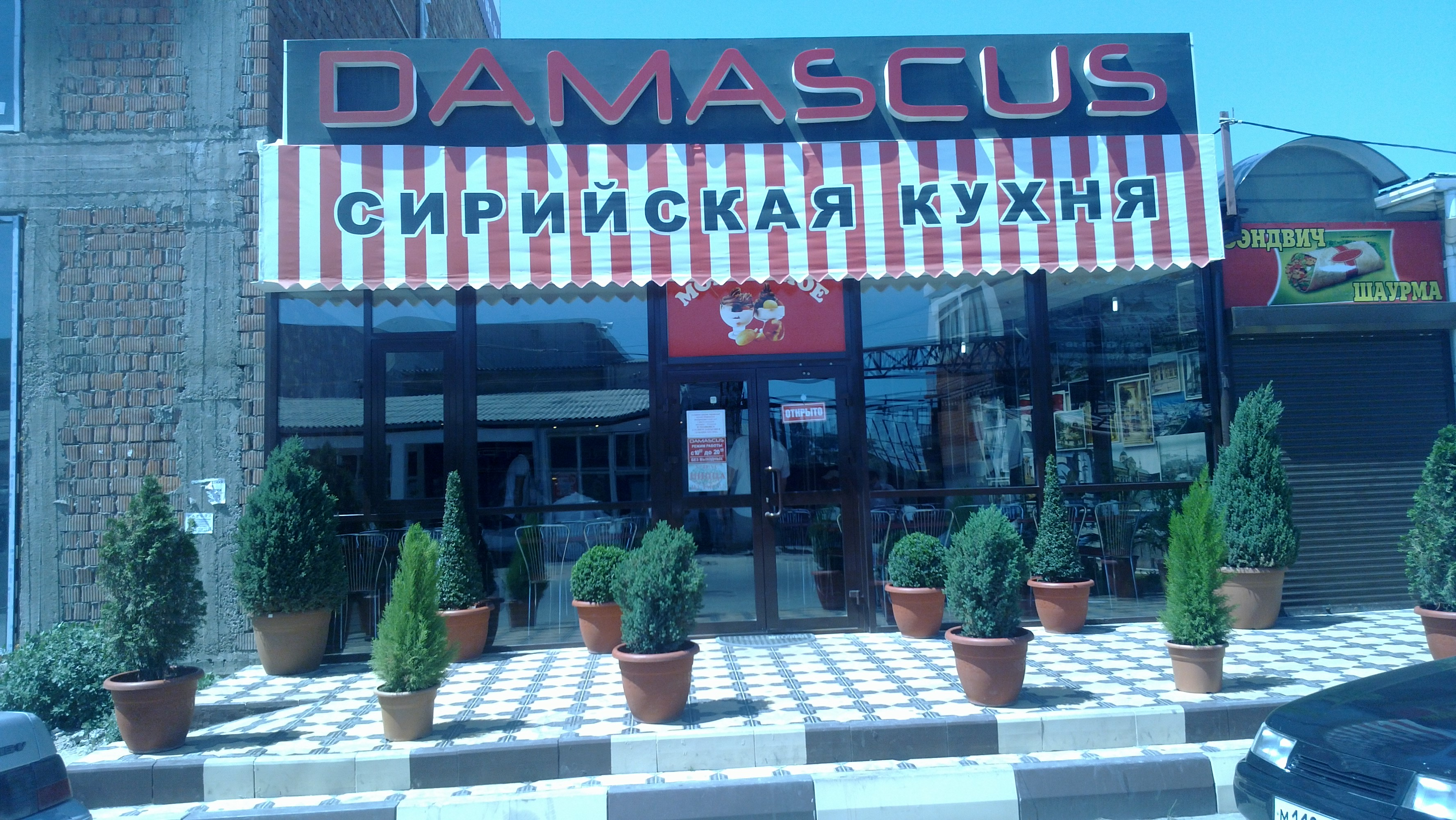 DAMASCUS rest. in the capital of Dagestan Makhachkala